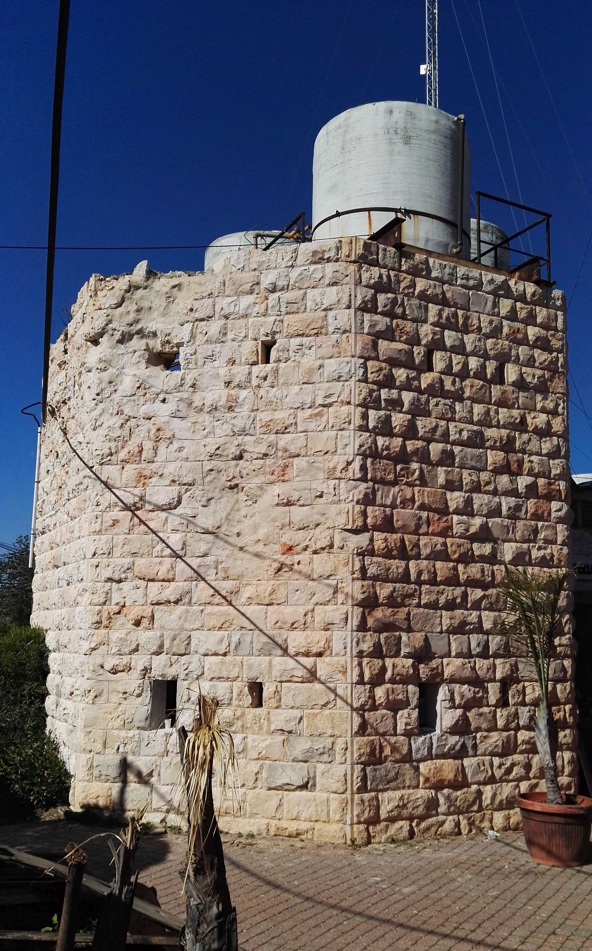 Former Jordanian police fort, currently local council building in Elkana.